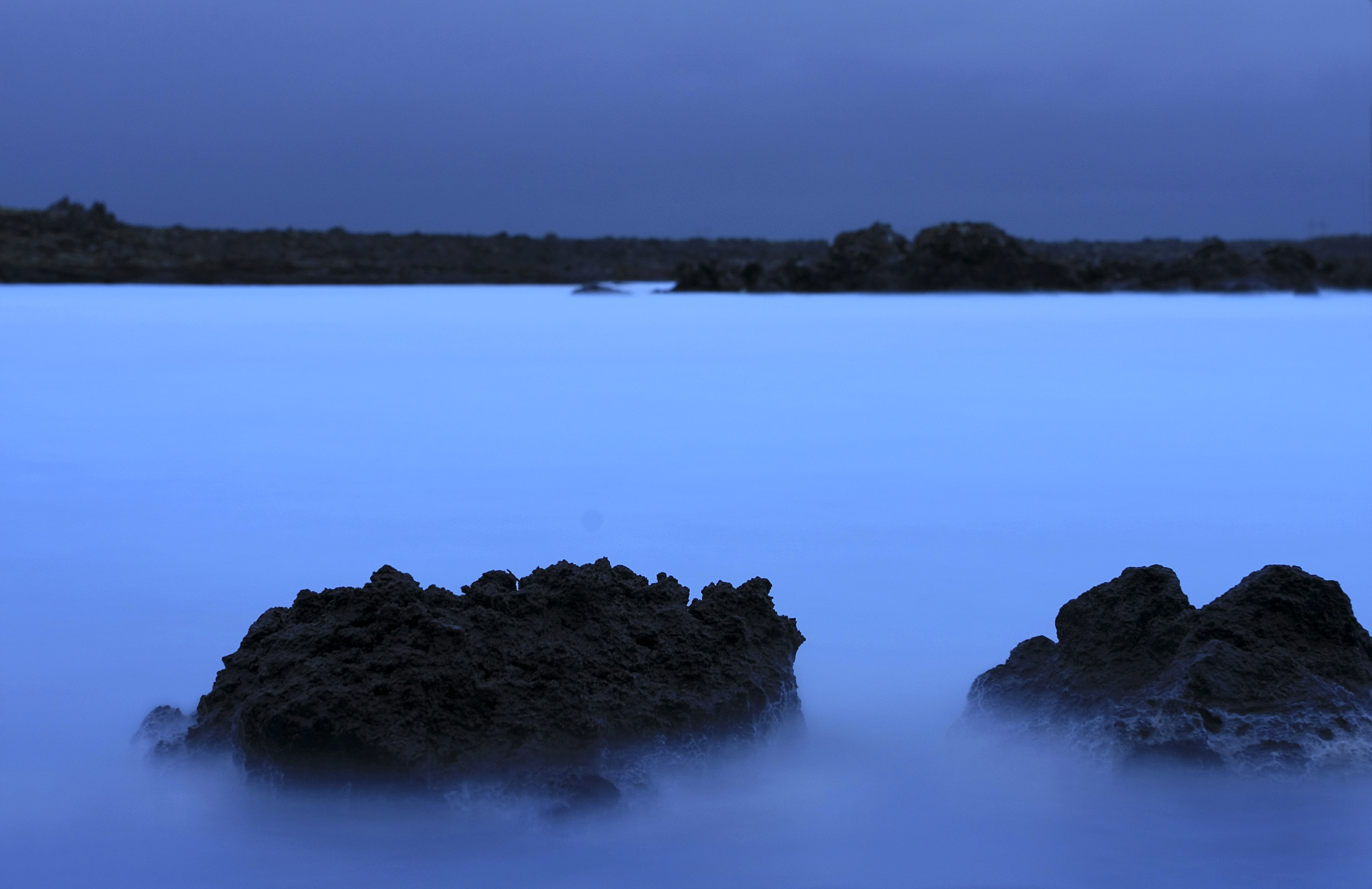 Blue Lagoon (geothermal spa)